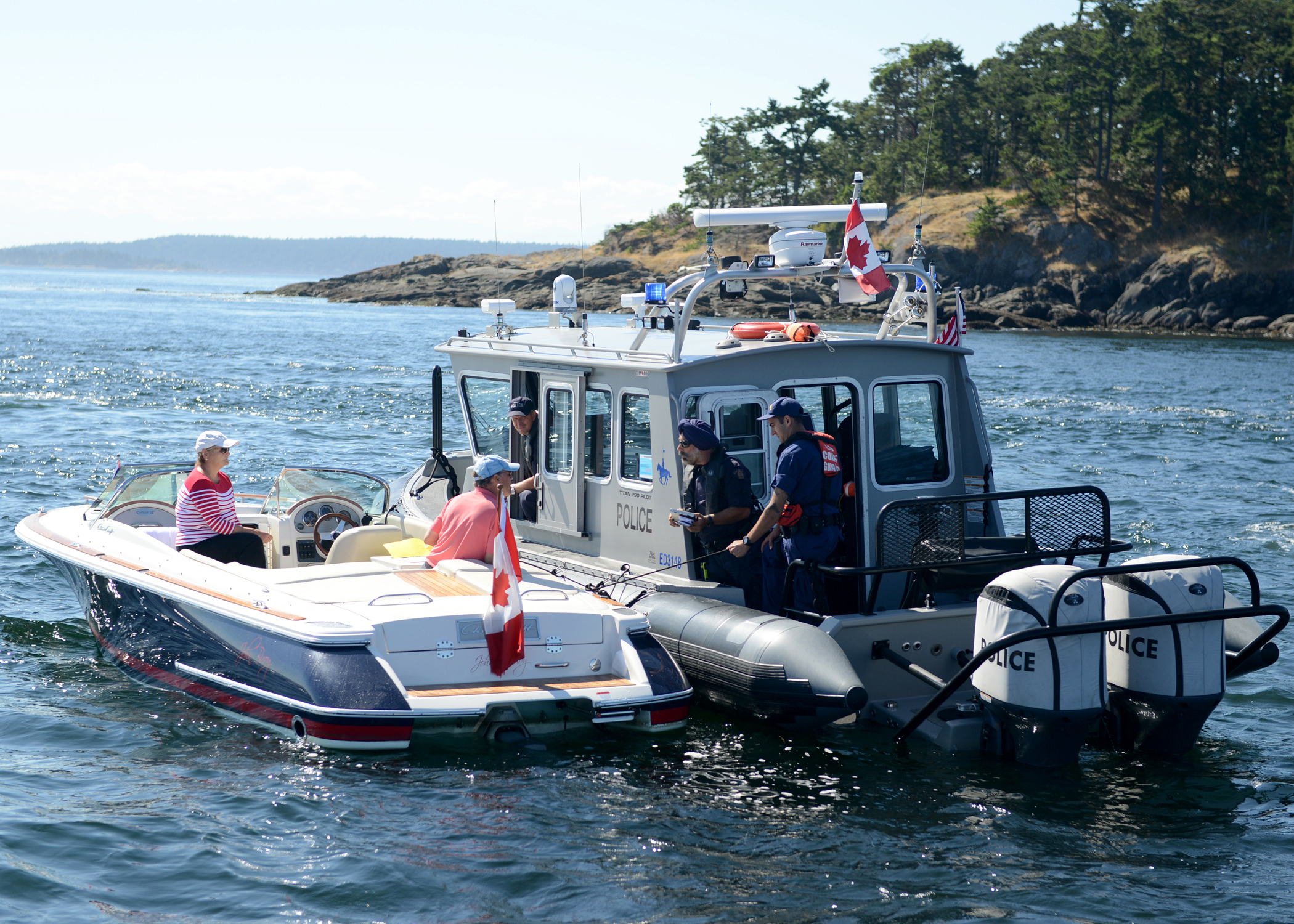 A joint boarding team comprised of U.S. Coast Guard and Royal Canadian Mounted Police personnel conducts safety checks on a recreational vessel in Canadian waters as part of the Shiprider program in Boundary Pass near South Pender Island, British Columbia, Aug. 27, 2014. Shiprider is a formal, regional standard operating procedure which places mixed crews aboard law enforcement vessels along the shared border to combat cross-border crime. (U.S. Coast Guard photo by Petty Officer 2nd Class George Degener)